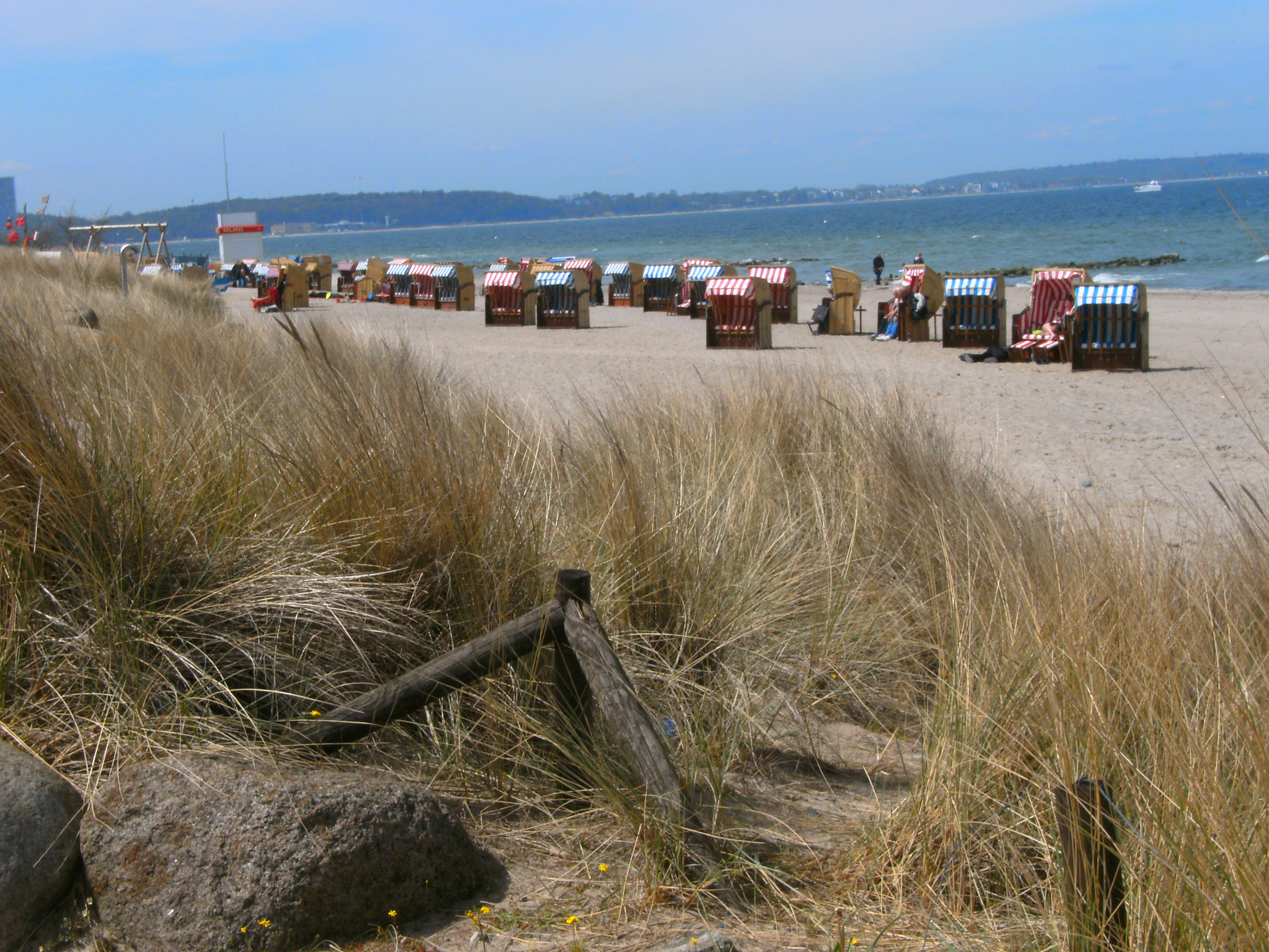 Niendorf (Timmendorfer Strand): Beach with strandkorbs.